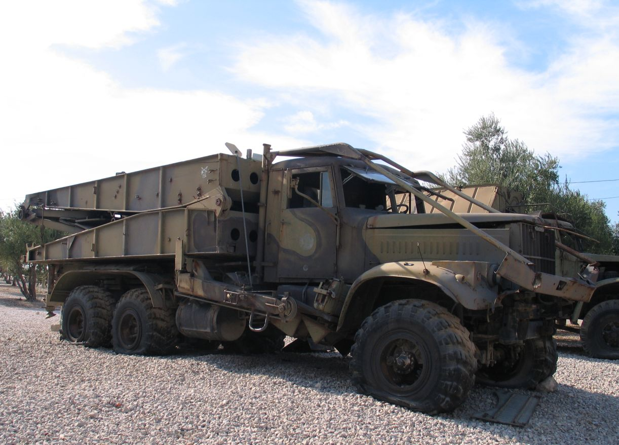 Description: Soviet TMM scissors bridge on KrAZ truck (apparently KrAZ-255) in Yad la-Shiryon Museum, Israel. 2005. Source: Photo by me, User:Bukvoed